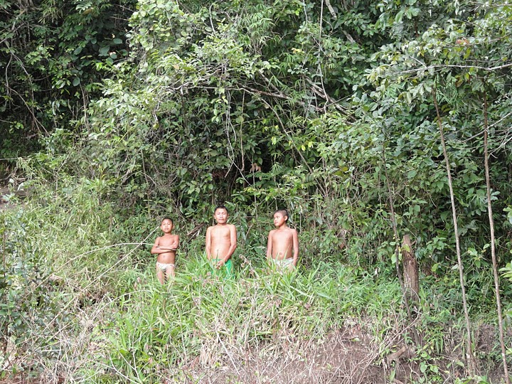 The Pemon are an Amerindian tribe living in areas of Venezuela, Brazil and Guyana.